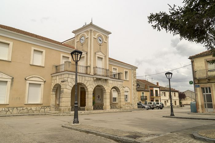 Ayuntamiento